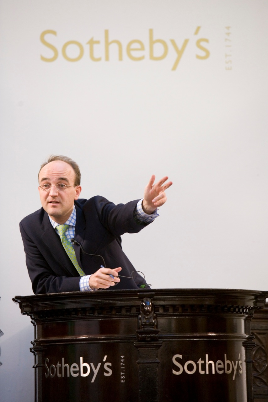 Patrick conducted auctions mainly at Sotheby's Bond Street